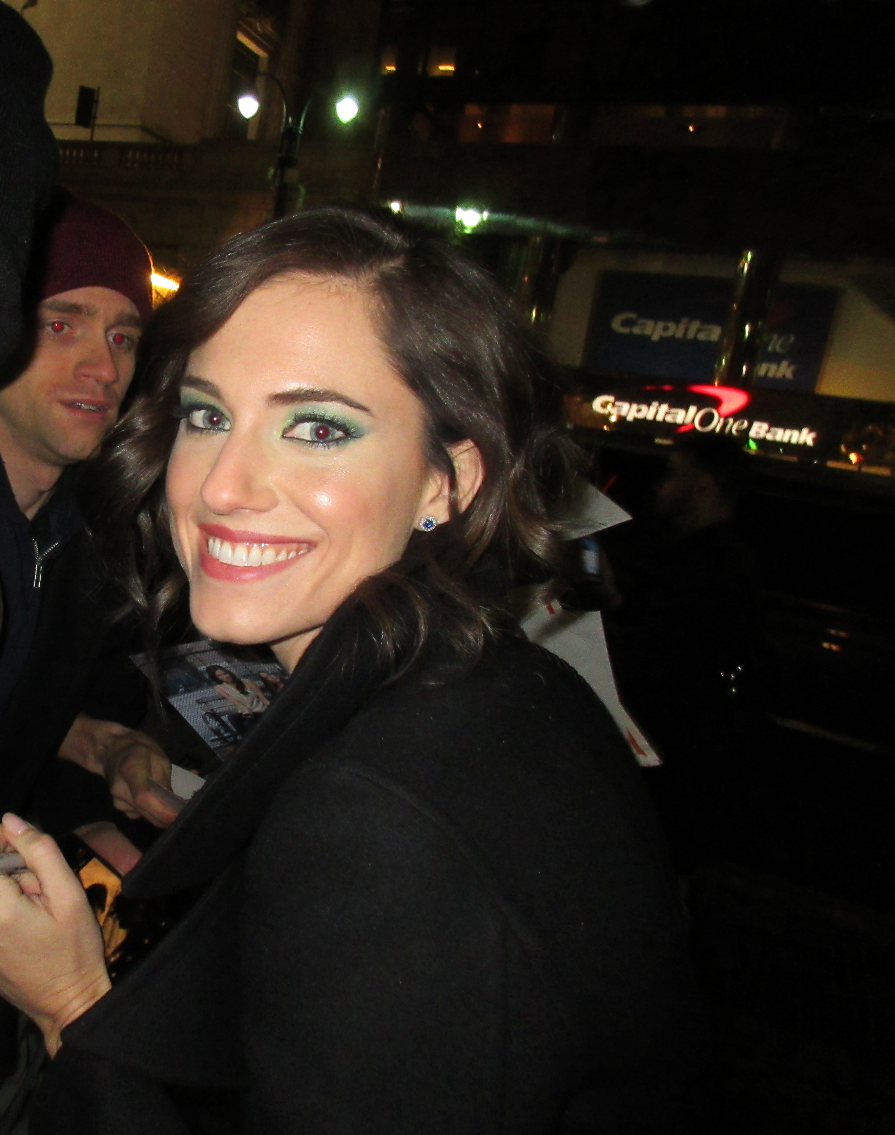 Star of Get Out and Girls. NYC Jan '18.